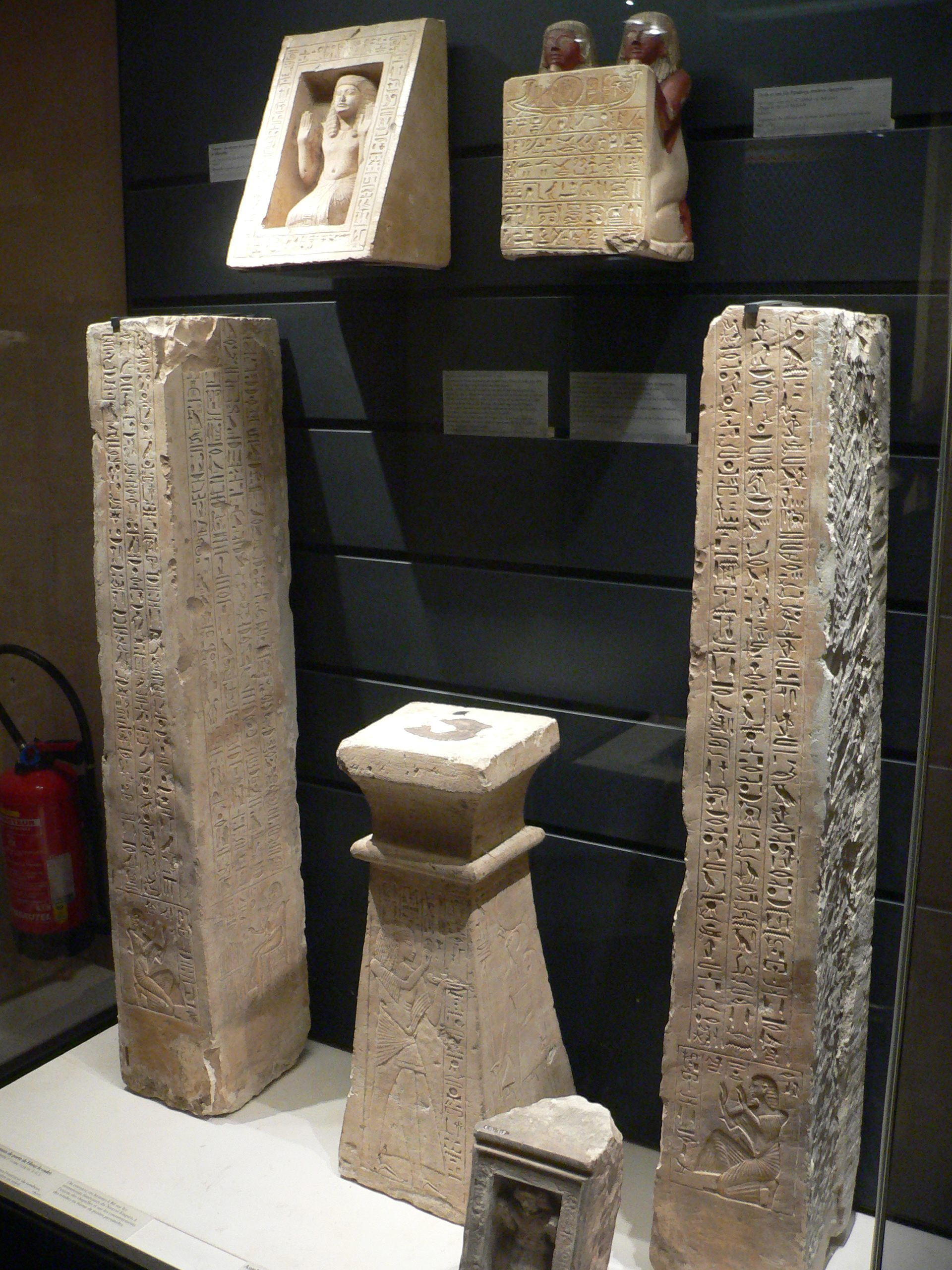 Egyptian antiquities of the Louvre.